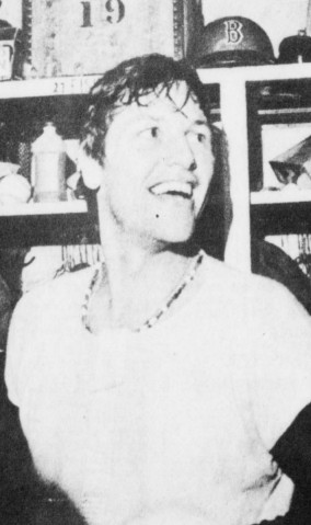 Boston Red Sox catcher Carlton Fisk following game six of the 1975 World Series.